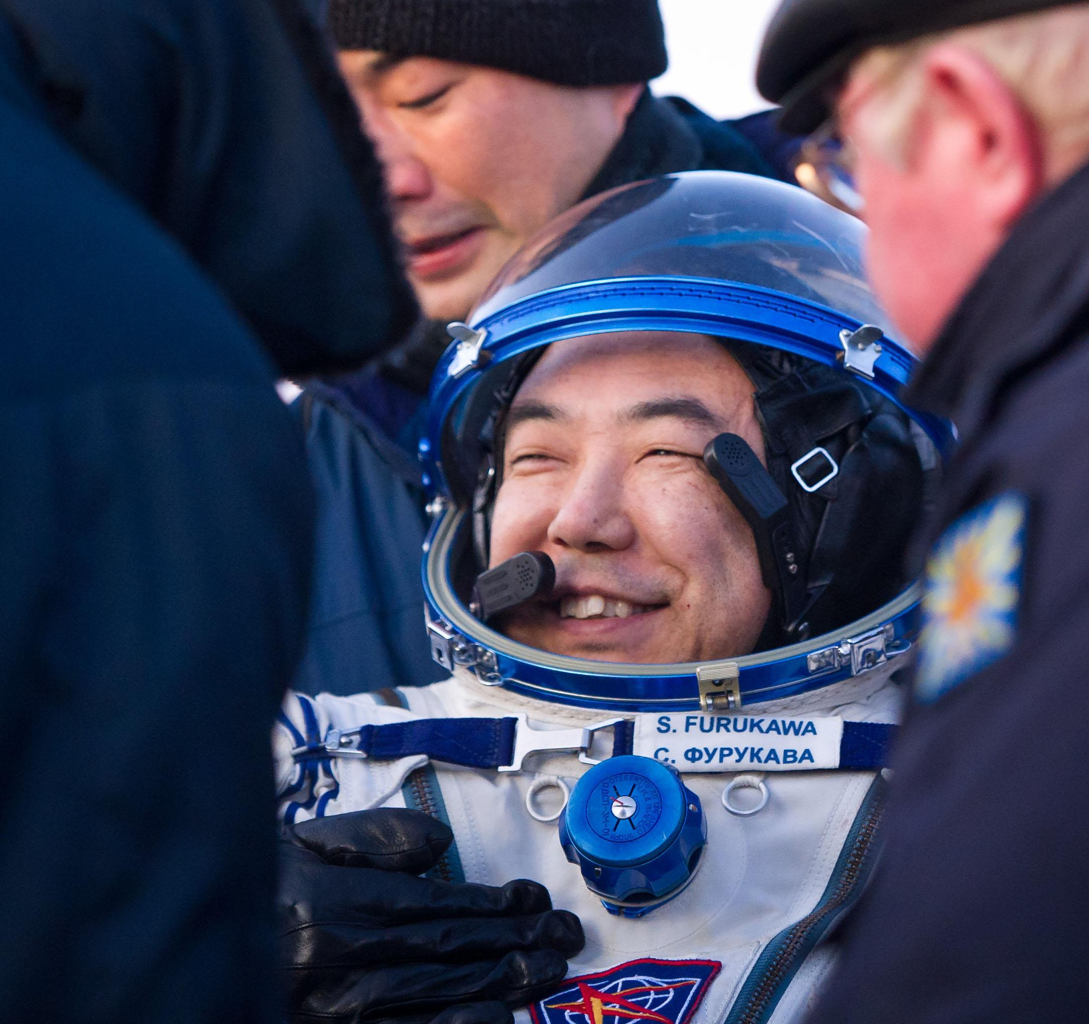 JAXA astronaut Satoshi Furukawa after landing of Soyuz TMA-02M spacecraft in Kazakhstan. From Photo credit: NASA/Bill Ingalls. NASA photo 201111220008hq (November 22, 2011) in public domain.